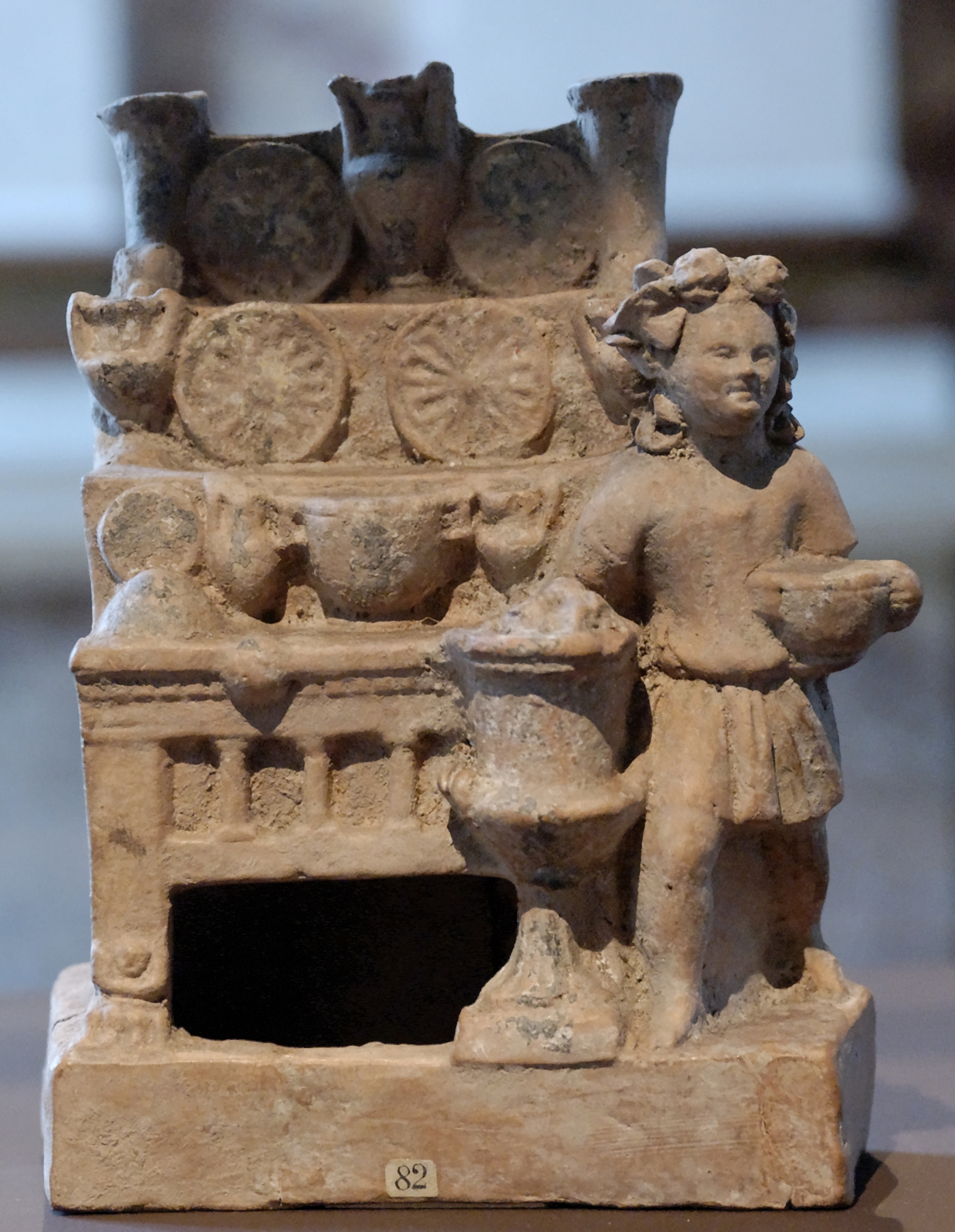 Child in front of a crockery display cupboard. Terracotta figurine, Hellenistic period. From Asia Minor, perhaps Myrina.